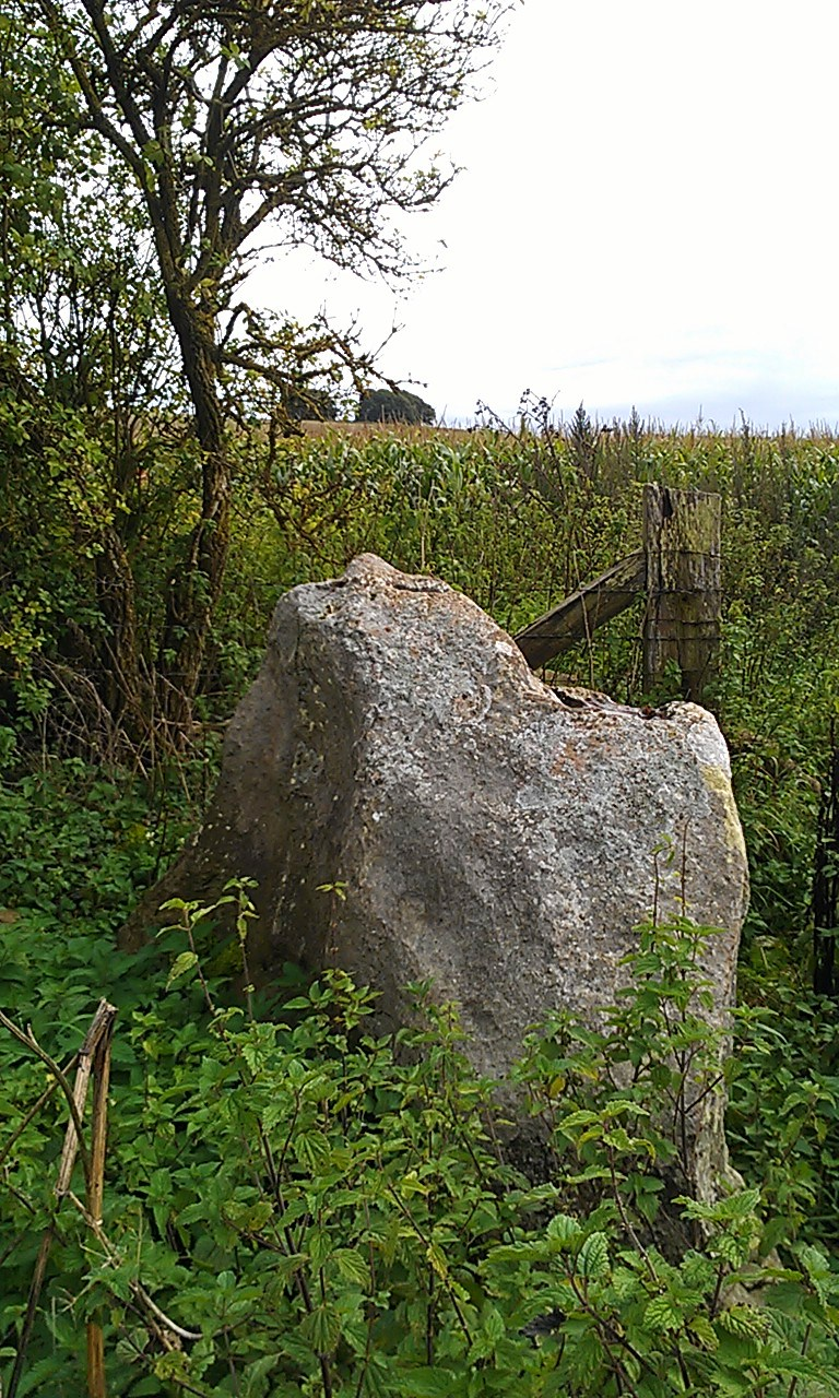 The side of Falkner's Circle, located near to Avebury, Wiltshire.